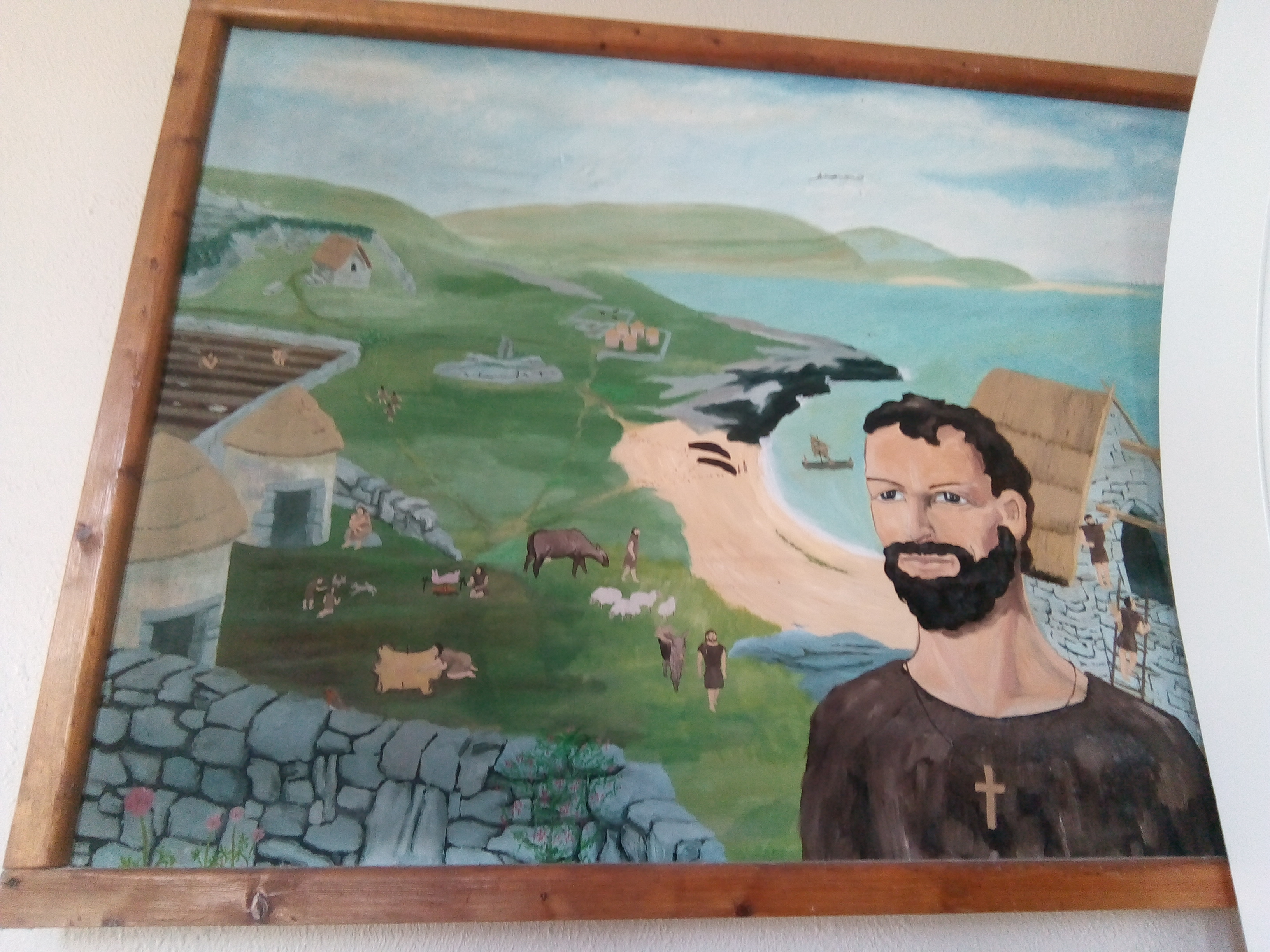 Saint Caomhan